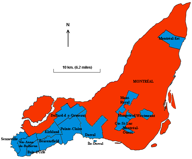 Political map of Montreal